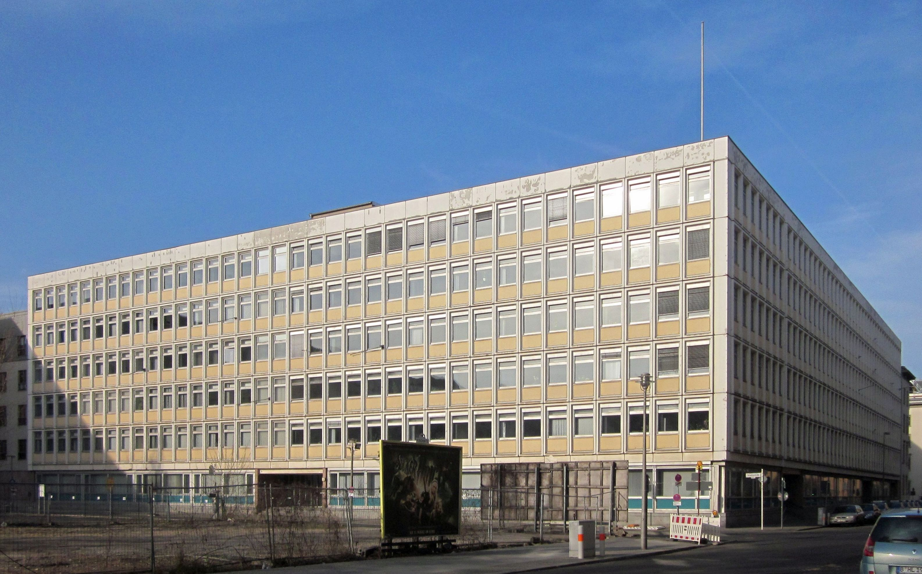 Former embassy building at Dorotheenstraße No. 85/91, corner of Schadowstraße (on the left), in Berlin-Mitte. The building was constructed from 1973 to 1974 to a design by Roland Korn. It is now being used by the Bundesvermögensamt (Federal Property Office) and the Bundestagsverwaltung (Federal Parliament Administration).